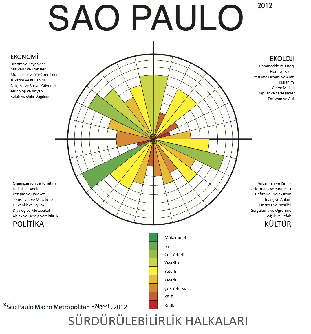 Turkish Translation of the file:Sao Paulo Profile, Level 1, 2012.jpg